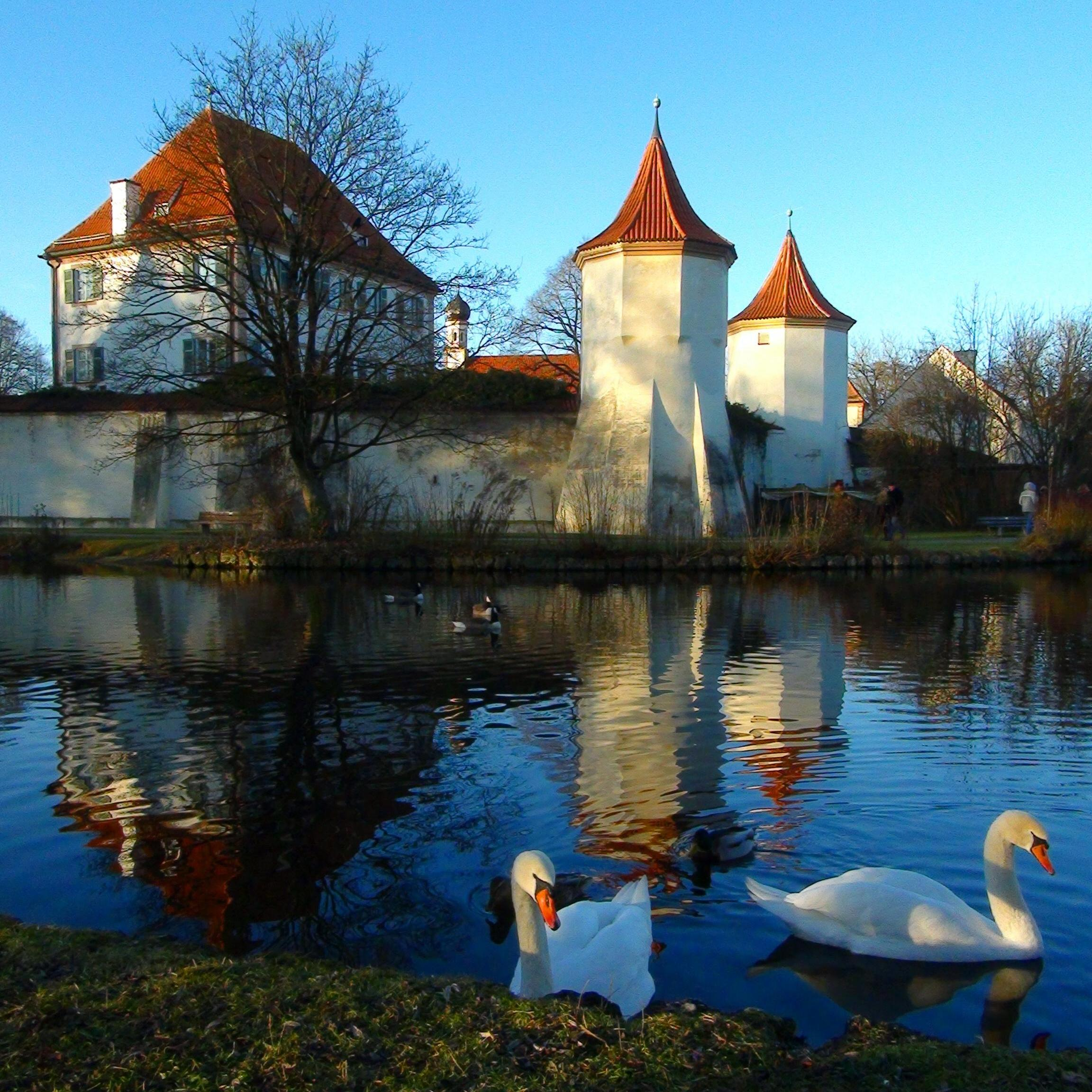 Blutenburg Castle in Munich, Germany